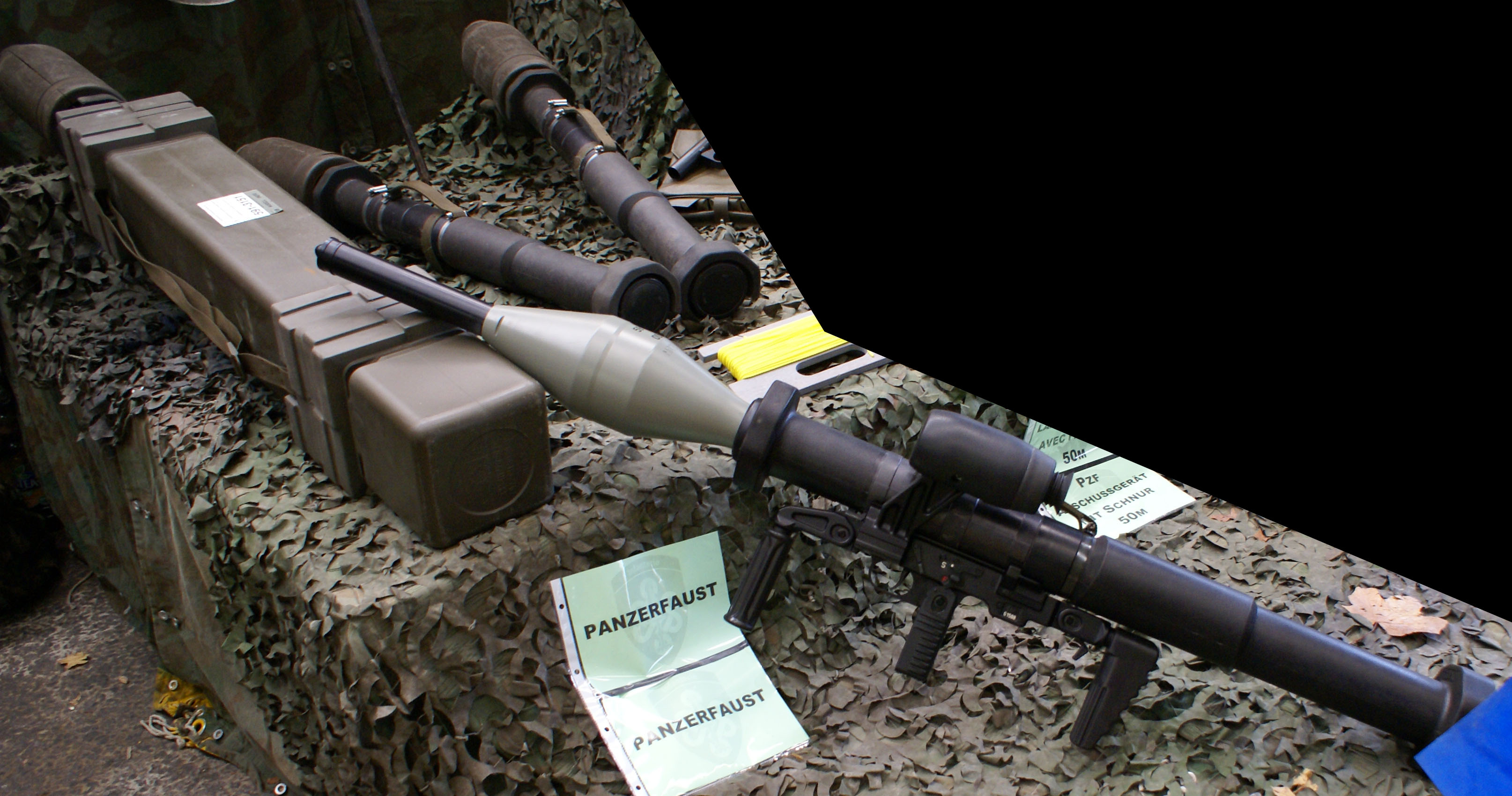 Swiss Army. Panzerfaust HL Patrone 95 (PzF HL Pat 95) rocket propelled grenade. Below, the launcher and the new warhead with 124 mm (since 1995); above, a transport container and two charges.